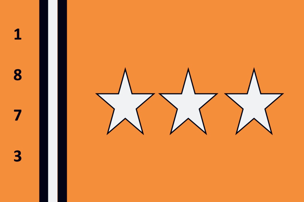 The official town flag for Claypool, Indiana. Created by local elementary students. The flag represents several facets of the town's history.